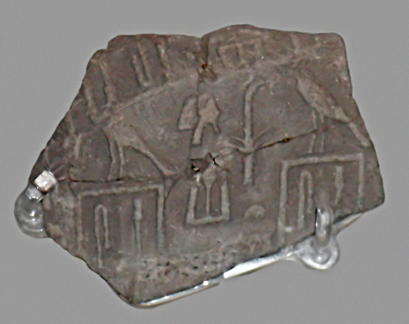 Seal impression with the name of king Sekhemib, Abydos, 2nd Dynasty